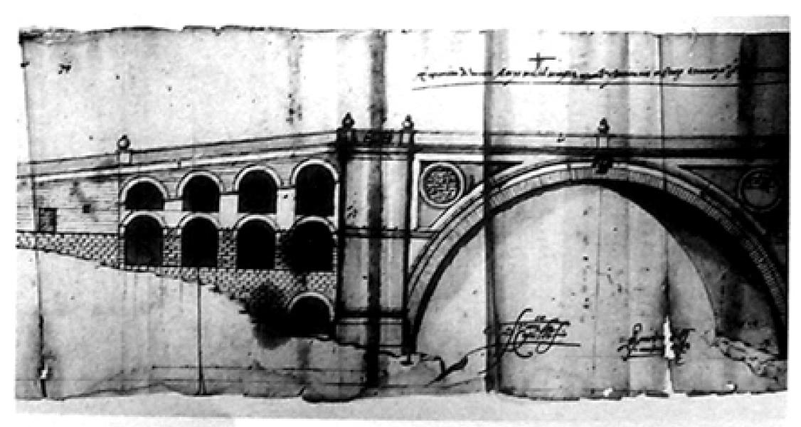 Flat Mazuecos's Bridge in Baeza